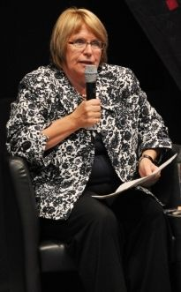 This picture shows Angelika Graf at the "Deutscher Seniorentag" (2009) in Leipzig.